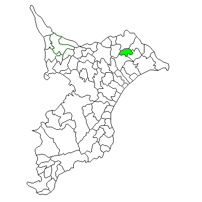 Location Map of former Kurimoto Town, Chiba Prefecture, Japan, now part of Katori City.